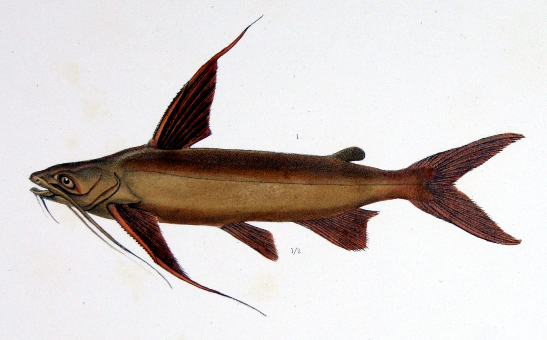 Galeichthys bahiensis Castelnau, 1855 = Gafftopsail sea catfish, Bagre marinus (Mitchill, 1815)